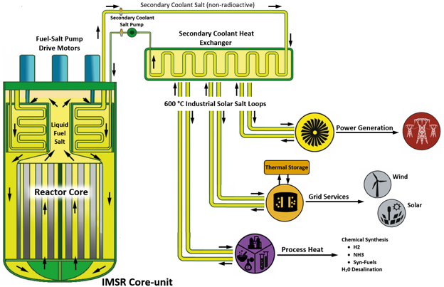 This schematic describes the different possible heat applications for the IMSR.